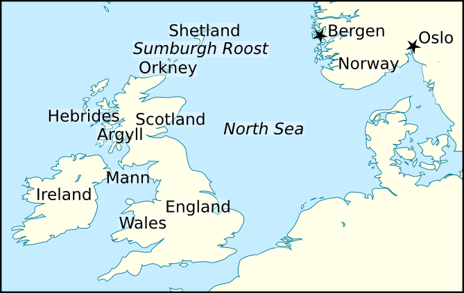 Locations relating to Haraldr Óláfsson, King of Mann and the Isles (died 1248).